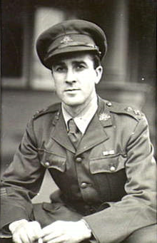 MELBOURNE, VIC. 1944-05-25. PORTRAIT OF VX18229 LIEUTENANT F. HODGKINSON, OFFICIAL WAR ARTIST, MILITARY HISTORY SECTION, LAND HEADQUARTERS.